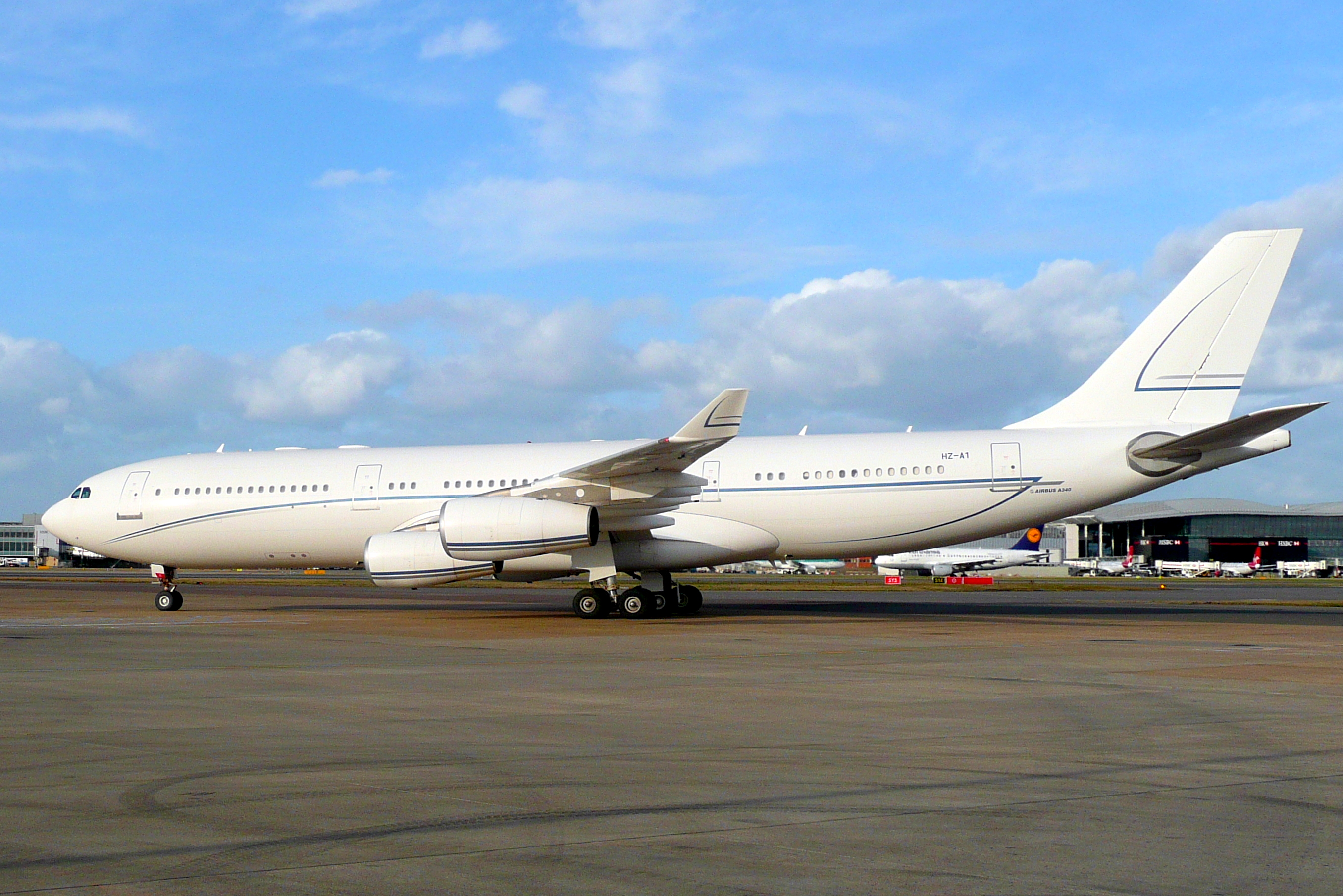 HZ-A1 Airbus A340-211 Alpha Star Aviation pulling on to RS1 on its first visit as such previously JY-ABH Jordanian Government.